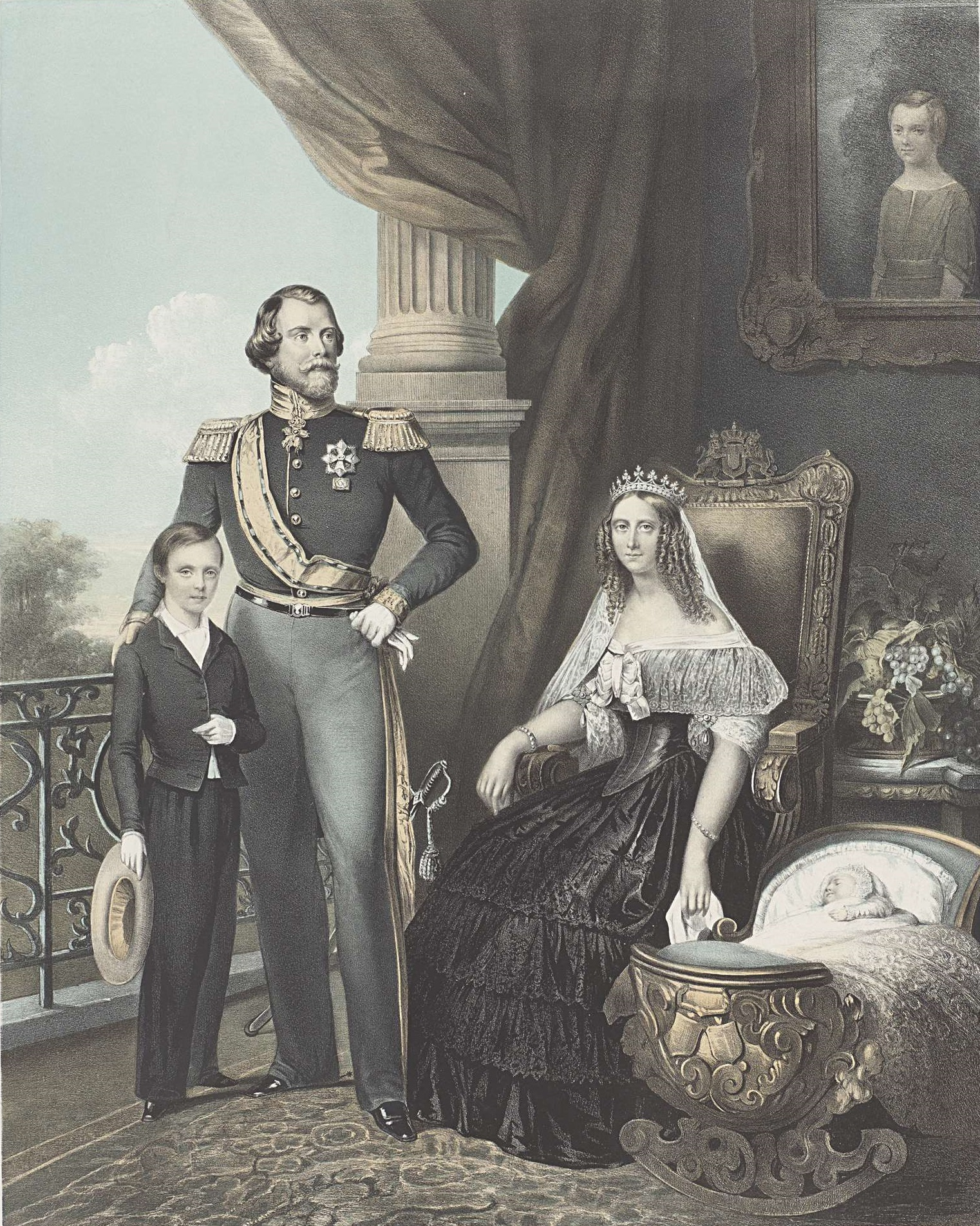 King Willem III of the Netherlands with his consort Queen Sophie and their sons Willem and Alexander